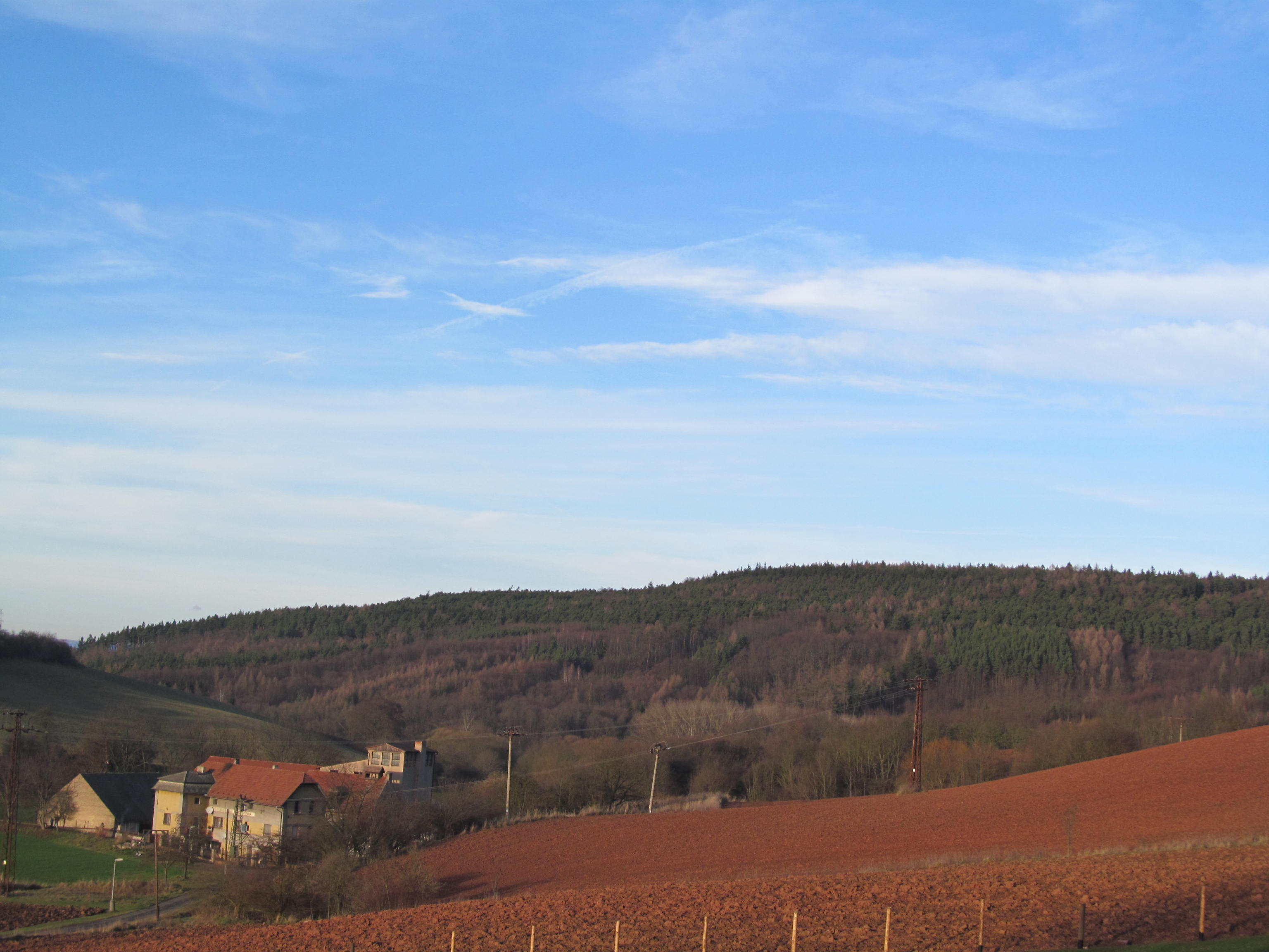 V Březinách hill from Divice village